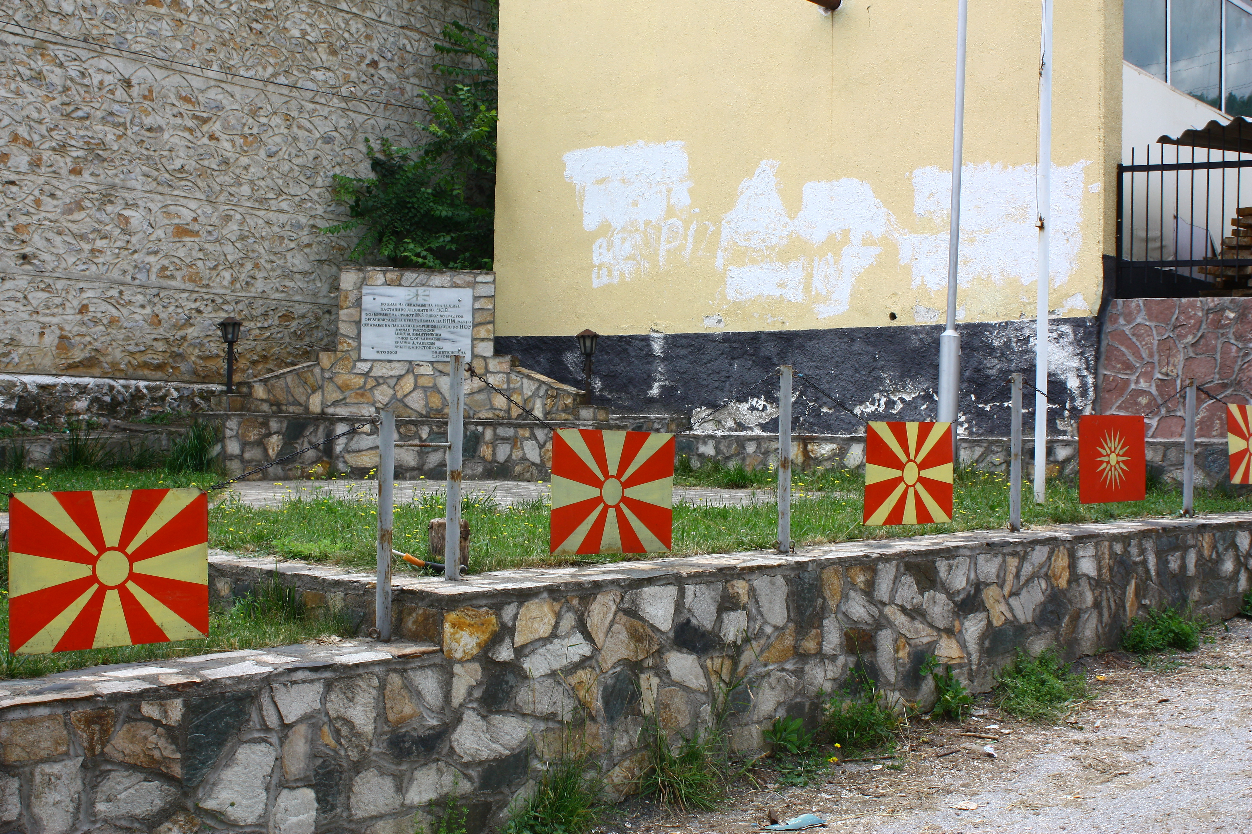 WWII Memorial in Zubovce, Macedonia